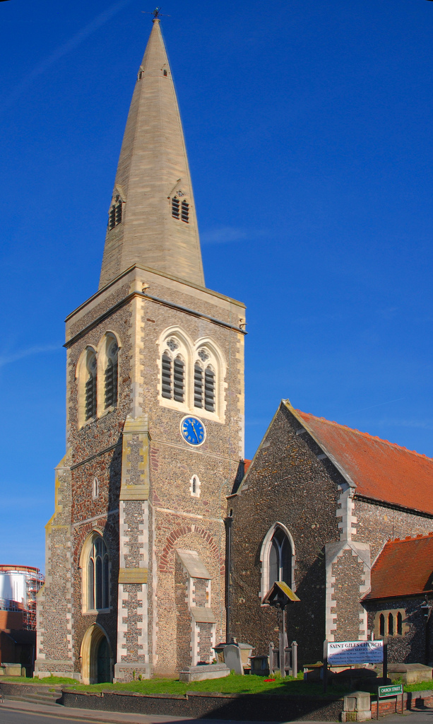 Church of England parish church of St Giles, Reading, Berkshire